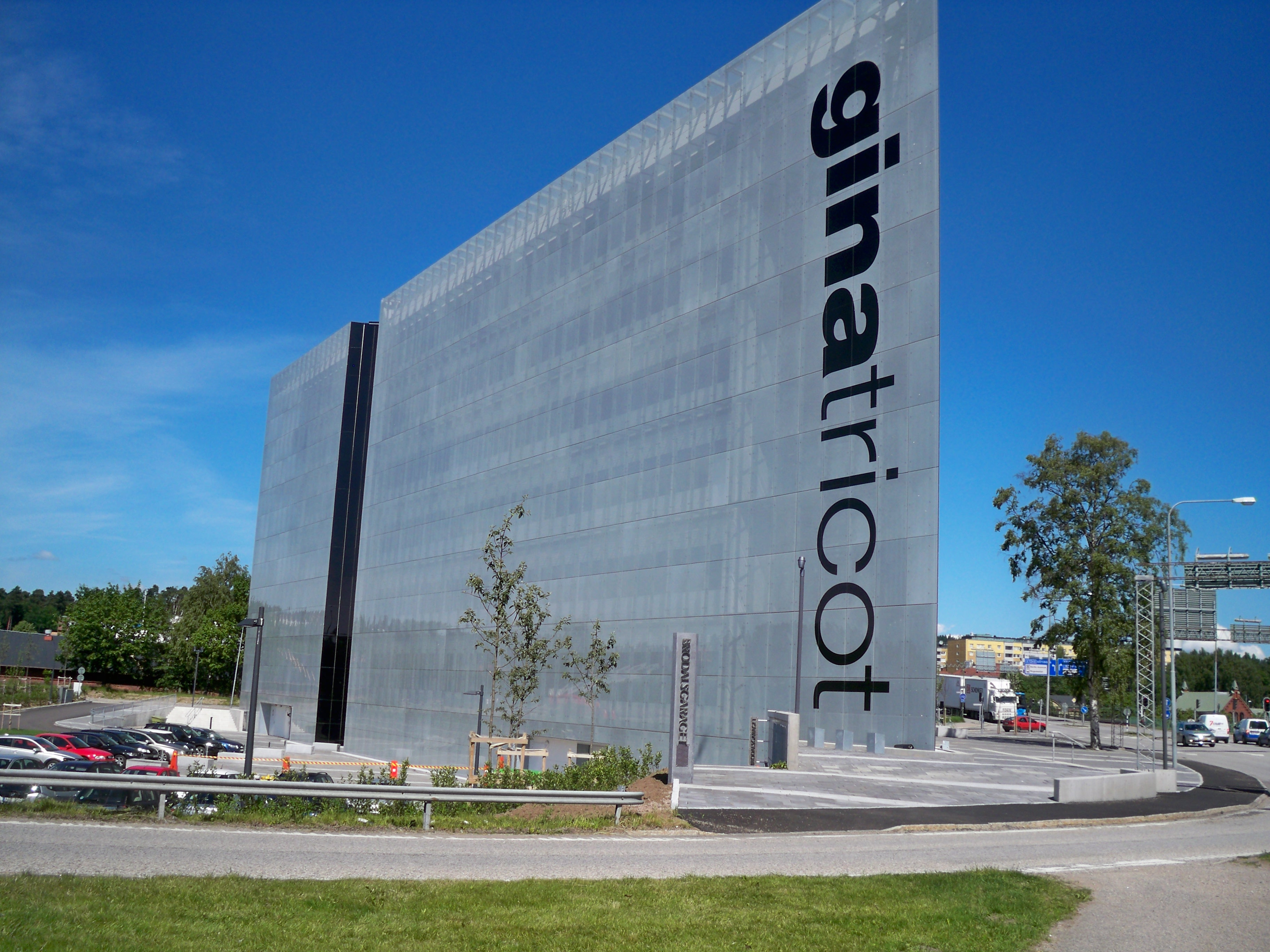 The sharp southside edge of the Swedish head office of the fast fashion company gina tricot, in Borås, Sweden. It was designed, literally like a piece of cake, by the Swedish architect Gert Wingårdh and inaugurated in November 2010.